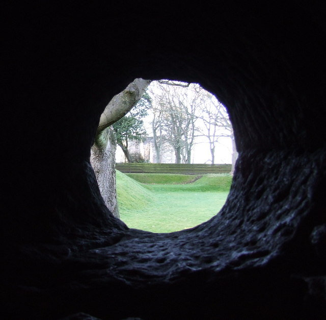 Gun Loop at St Andrews Castle Looking out over an area transformed into formal gardens when the need for defence was less pressing. The area is now grassed over.